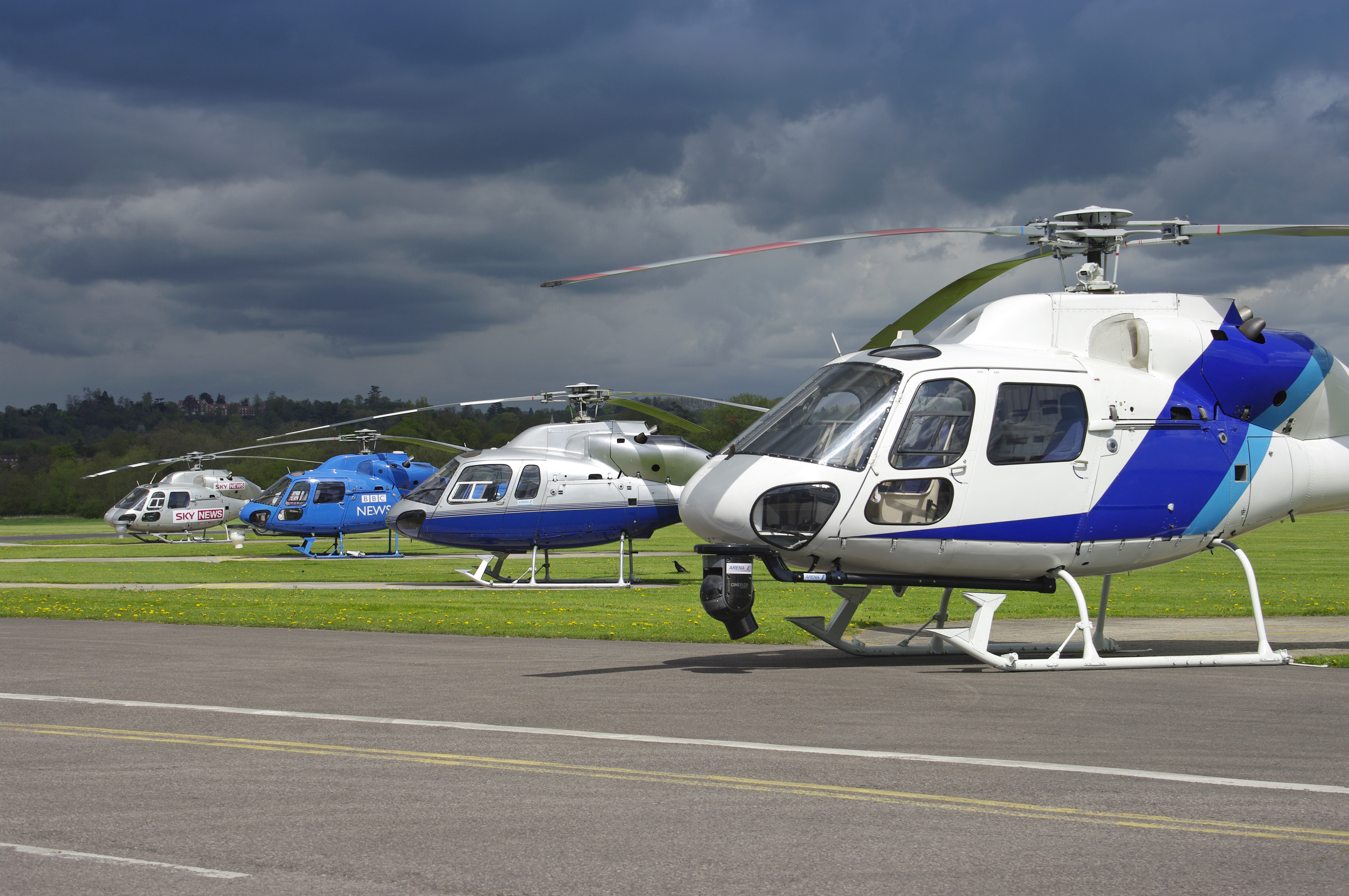 Four AS355 helicopters